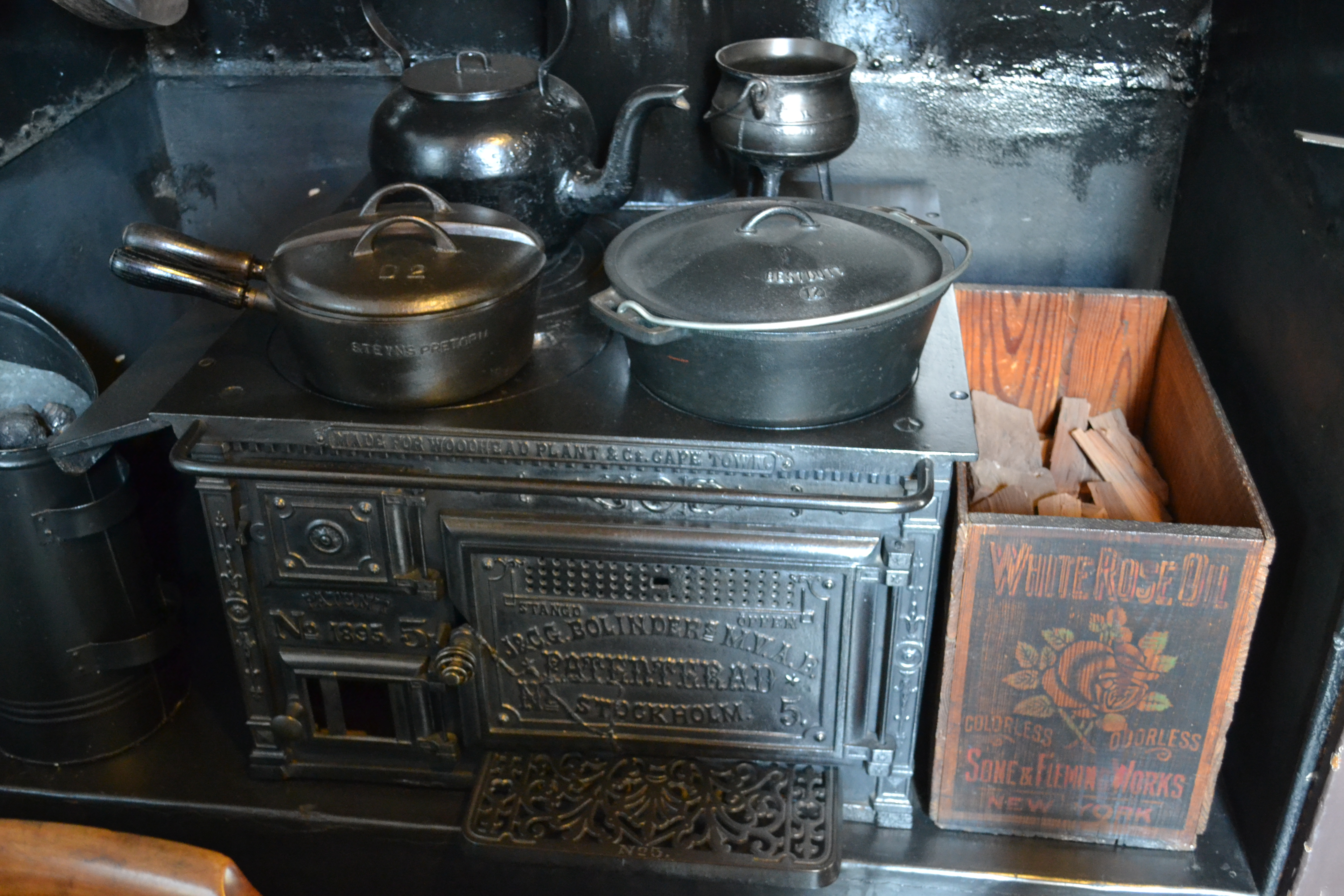 Kruger House Church Street Pretoria This media shows a South African Protected Site with SAHRA file reference 9/2/258/0010.